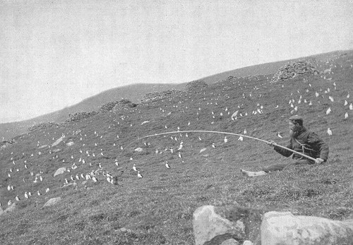 Finlay McQuien catching puffins on St Kilda